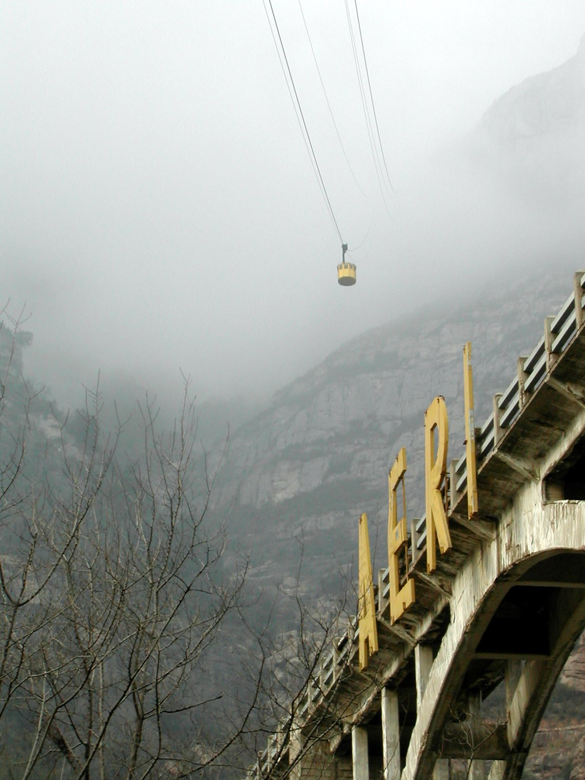 Montserrat cableway (Spain).